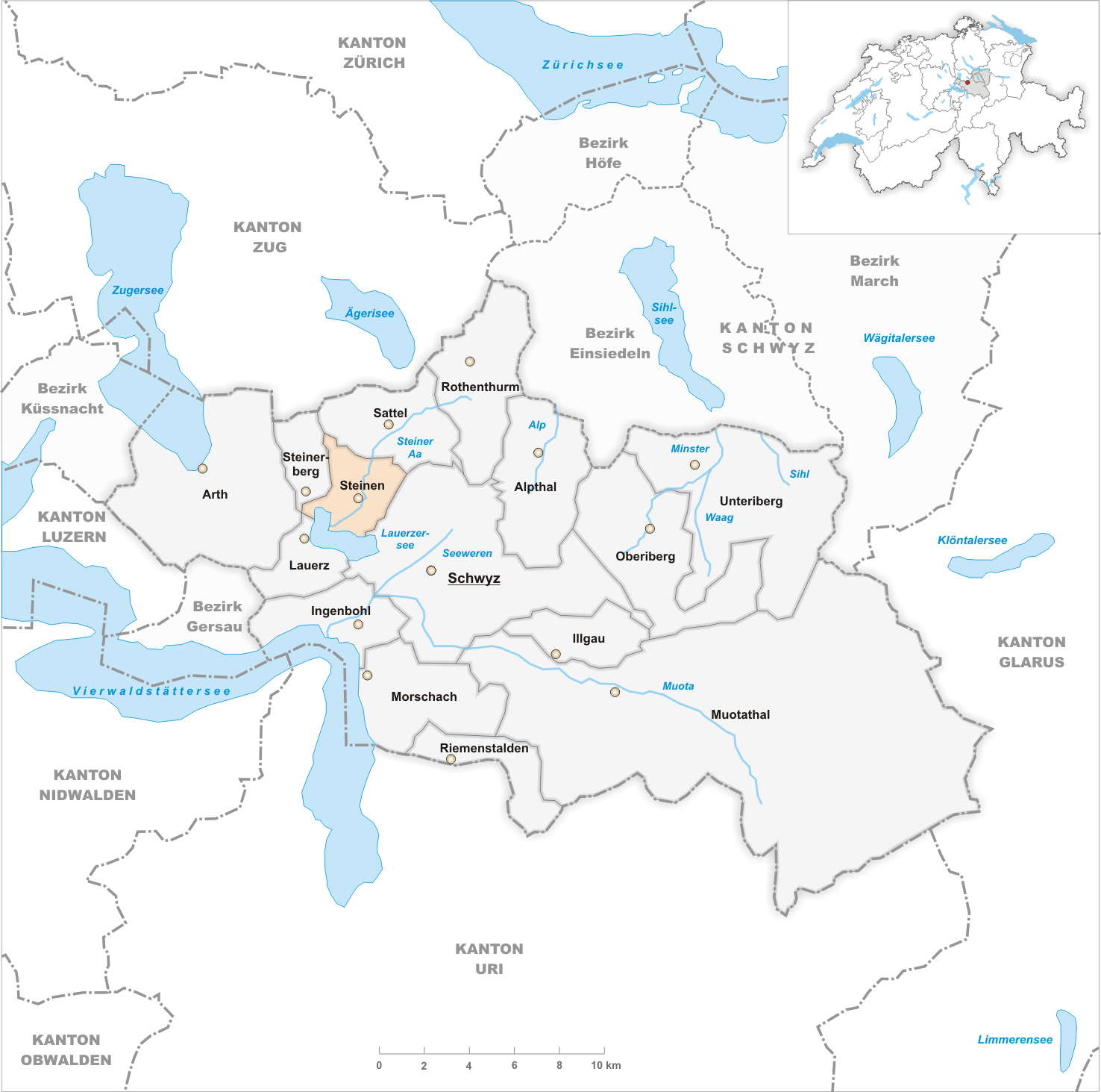 Municipality Steinen